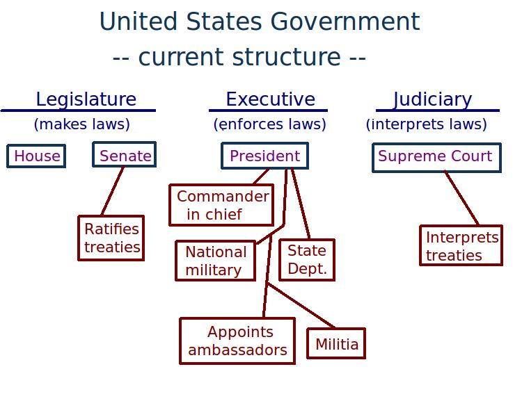 The task of making foreign policy in the United States, according to the United States Constitution, is divided among different branches of government, with the executive branch having much of the decision-making authority, while the Senate ratifies treaties (2/3 vote needed to pass) and the Supreme Court rules on how to interpret treaties. Congress has a role in controlling appropriations for military expenditures.